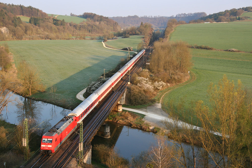 Euronight #482 (Copenhagen-Munich) on the Treuchtlingen-Ingolstadt line, near Dollnstein, Germany